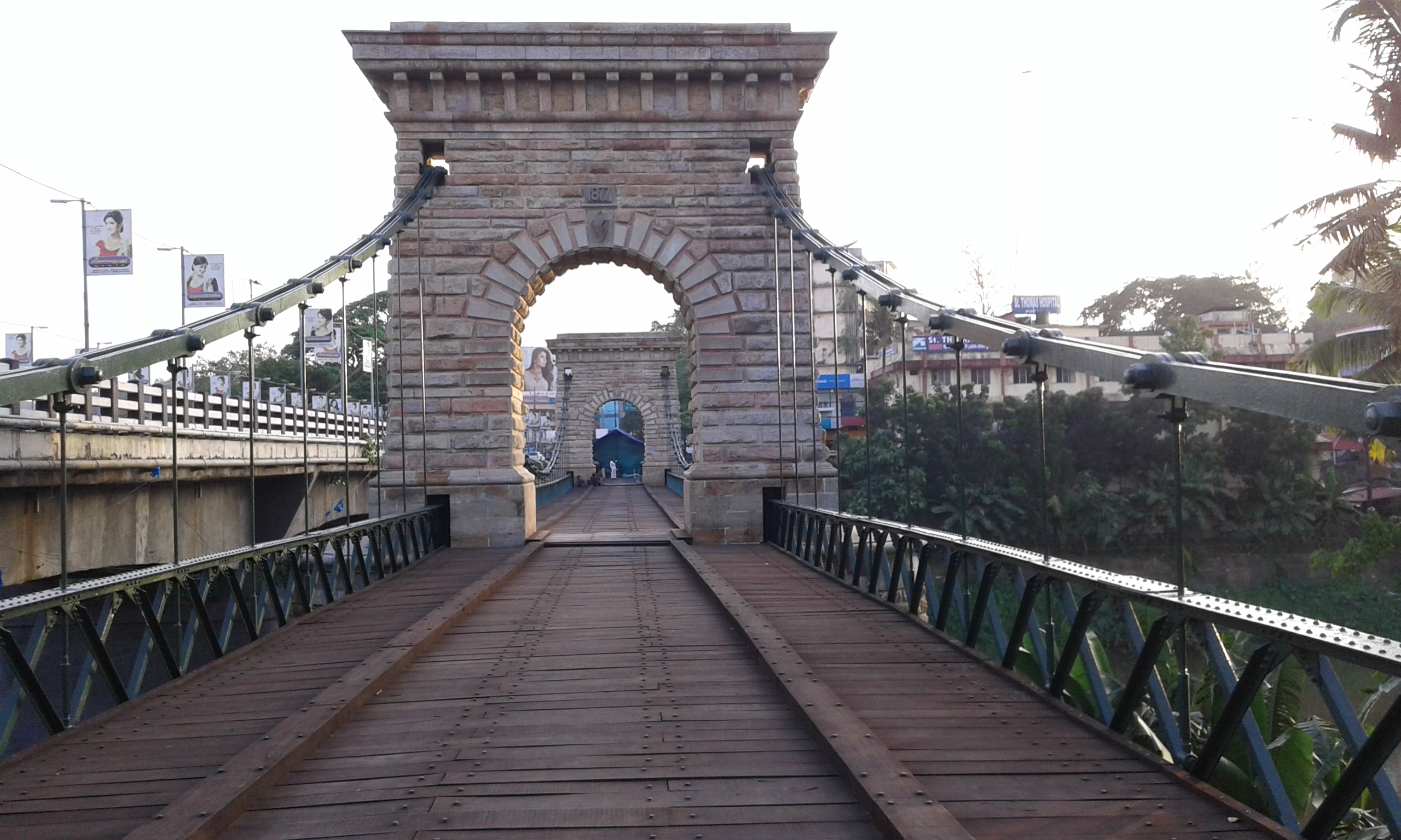 punalur suspension bridge 1877